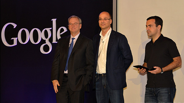 Eric Schmidt, Andy Rubin and Hugo Barra at a press conference for the Google's tablet Nexus 7, Grand InterContinental Hotel, Seoul on September 27, 2012